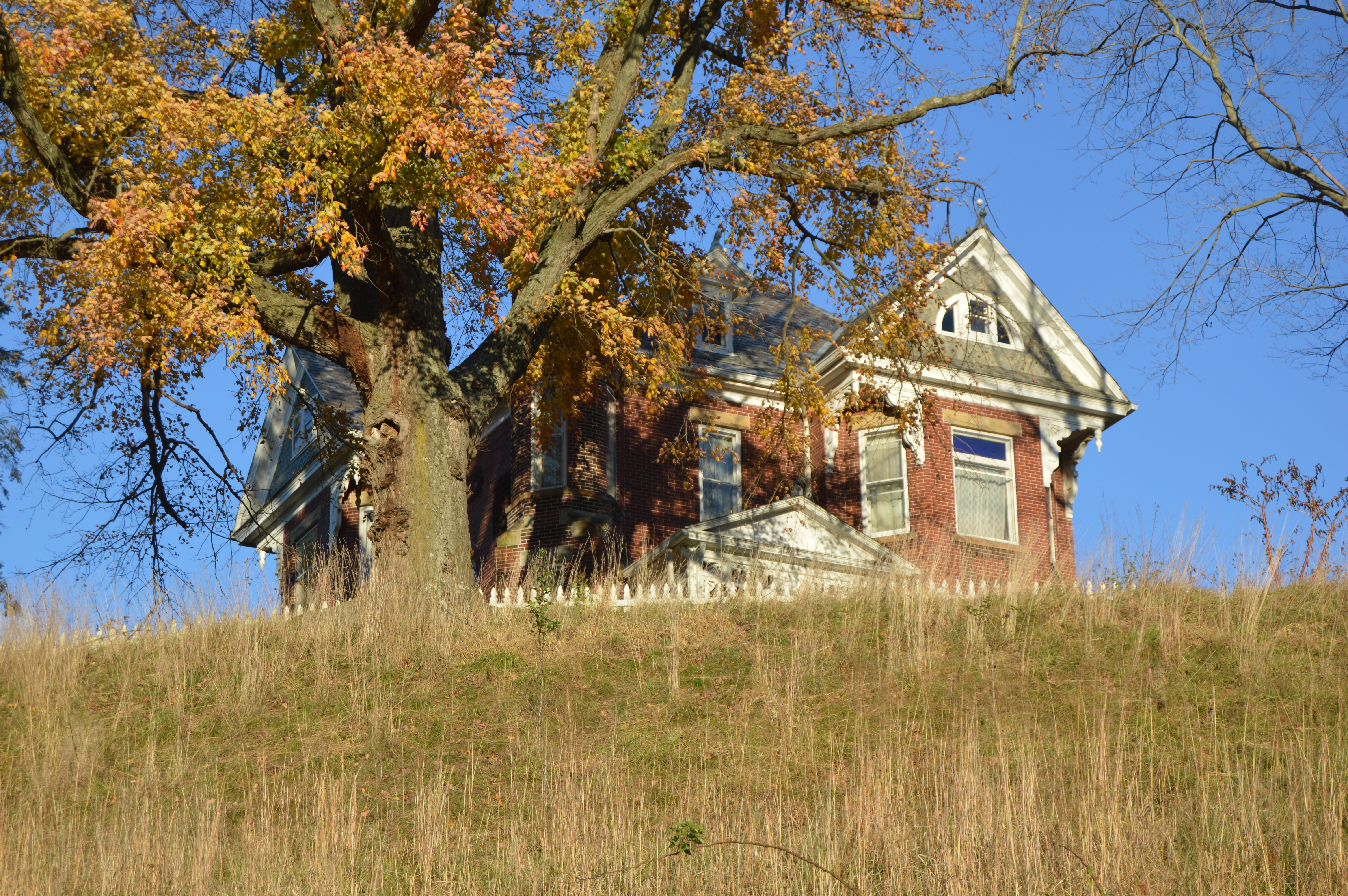 Front and northwestern side of the William H. Woodruff House, located at 35330 Linton Road southeast of Logan in Green Township, Hocking County, Ohio, United States. Built in 1892, it is listed on the National Register of Historic Places.